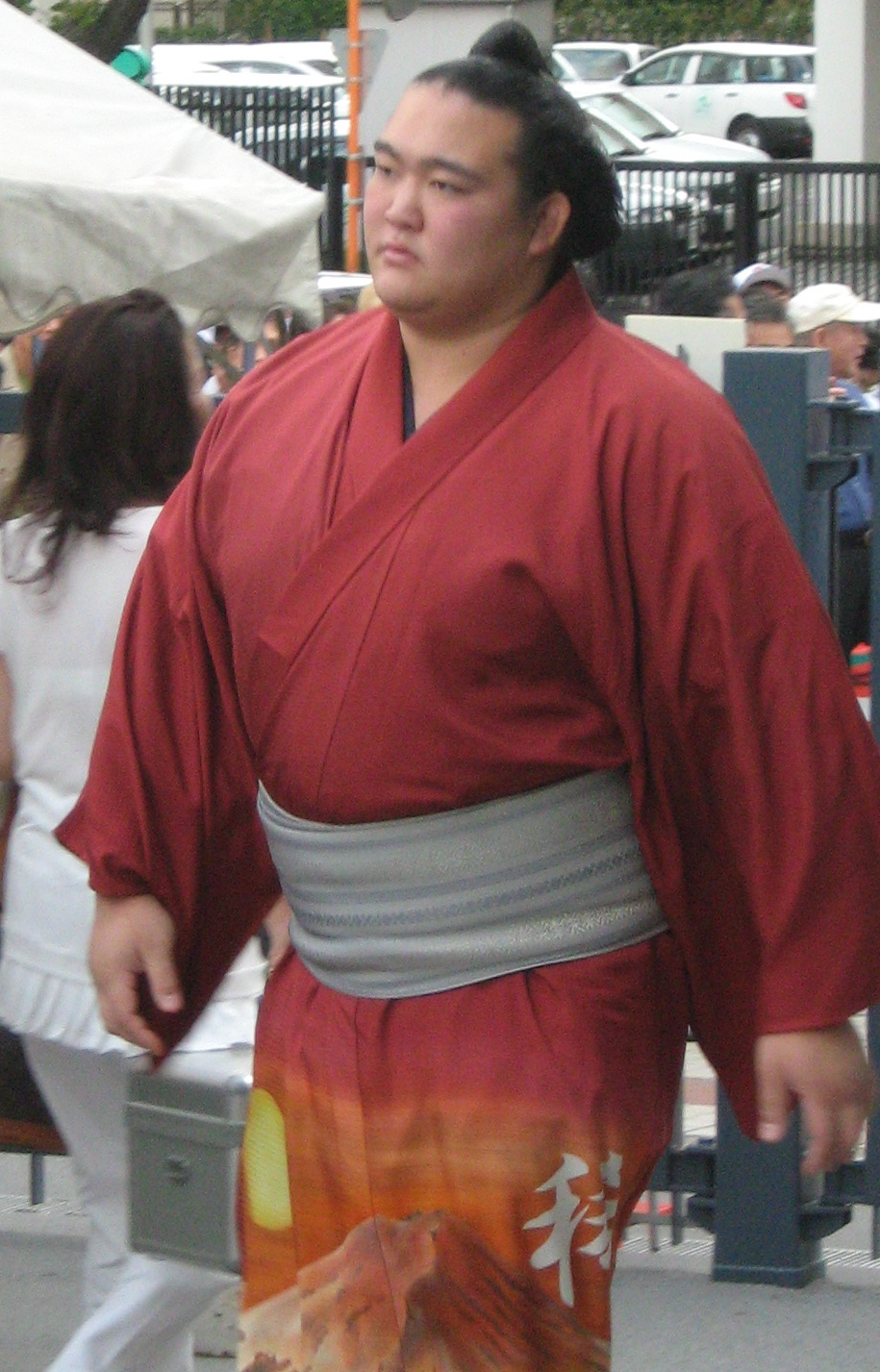 Taken at Sep 2008 tournament in Tokyo